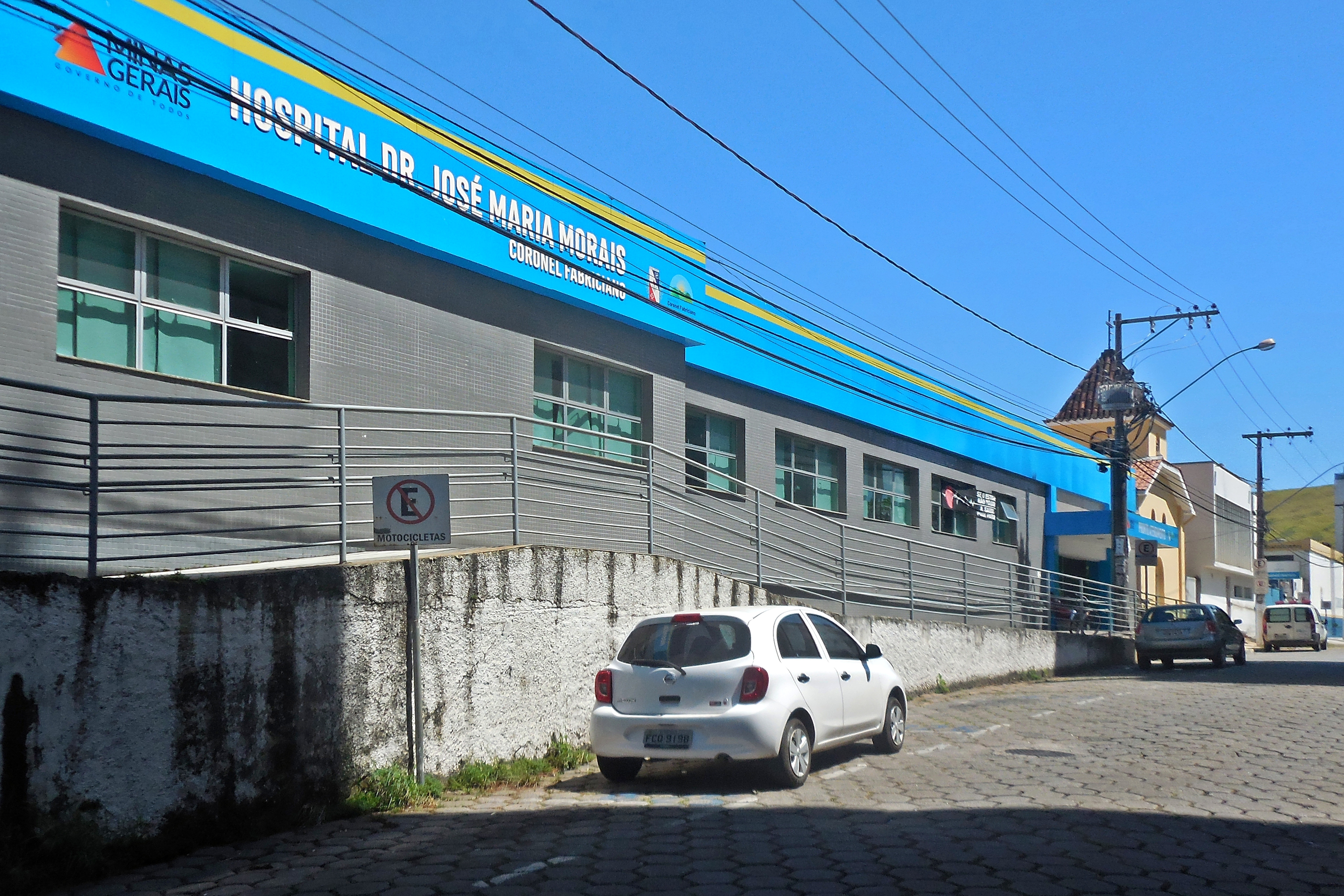 Partial view of the Doutor José Maria Morais Hospital, in Coronel Fabriciano, Minas Gerais, Brazil.